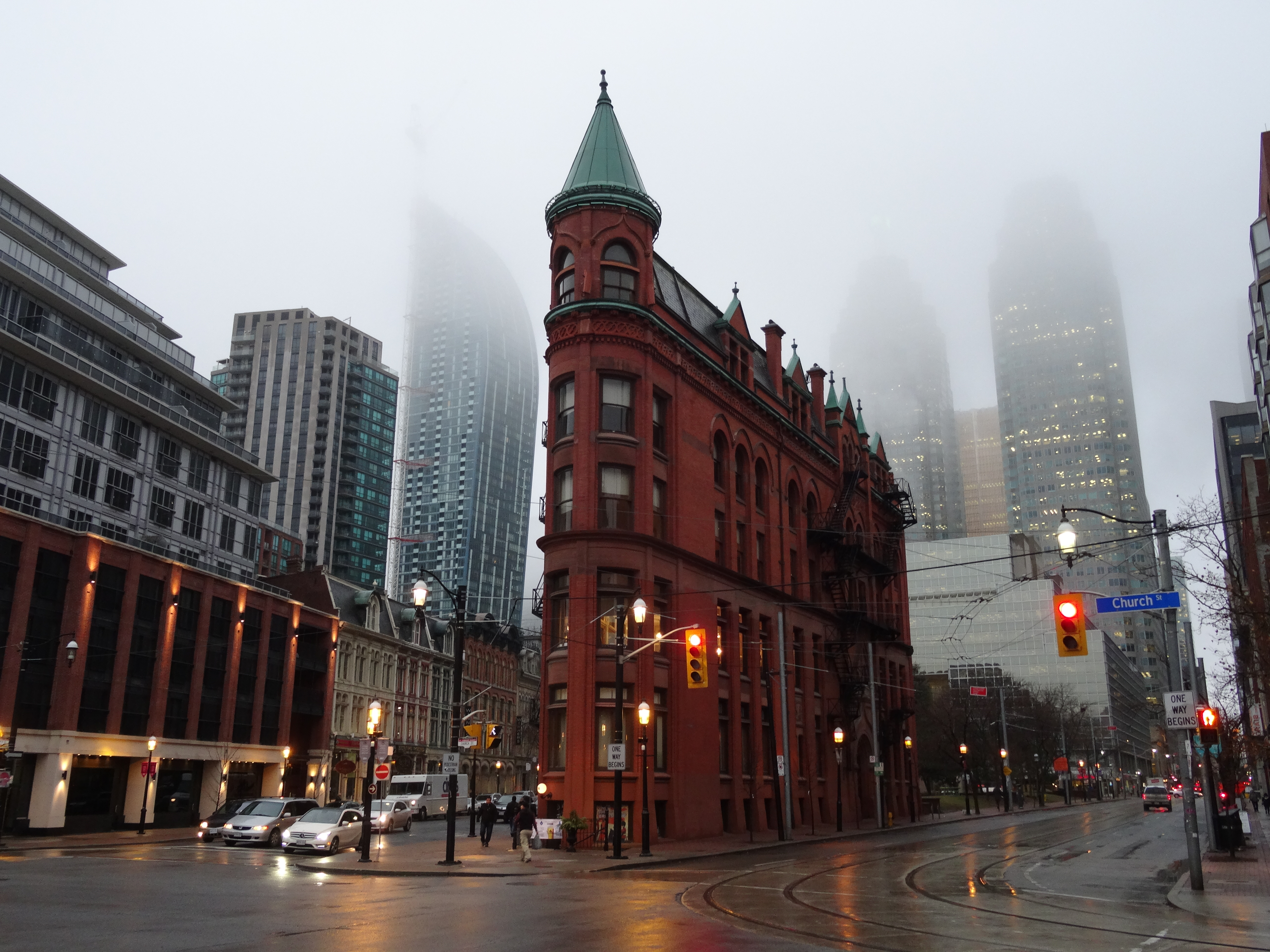 Intersection of Church and Front, 2014 12 24 (6)